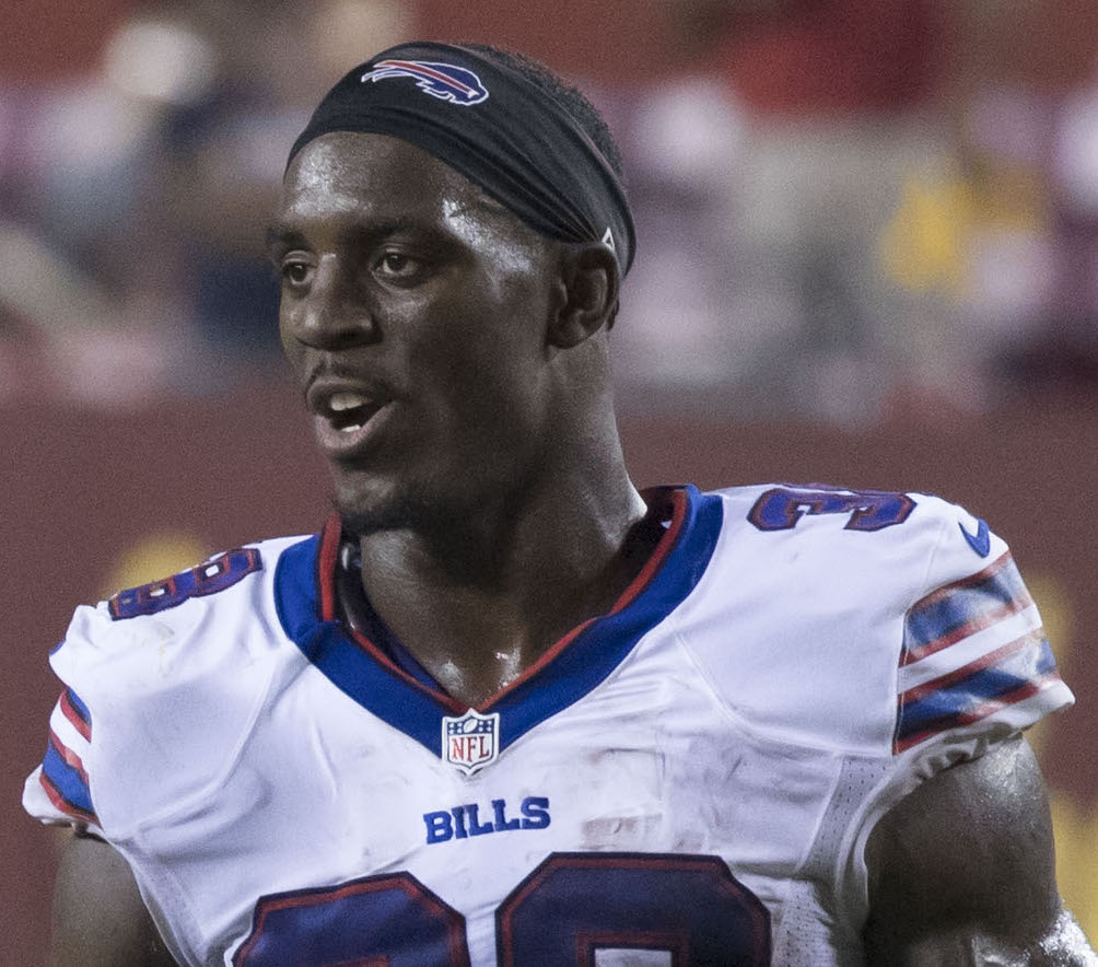 Buffalo Bills running back, James Wilder Jr., after a preseason game against the Washington Redskins on August 26, 2016.